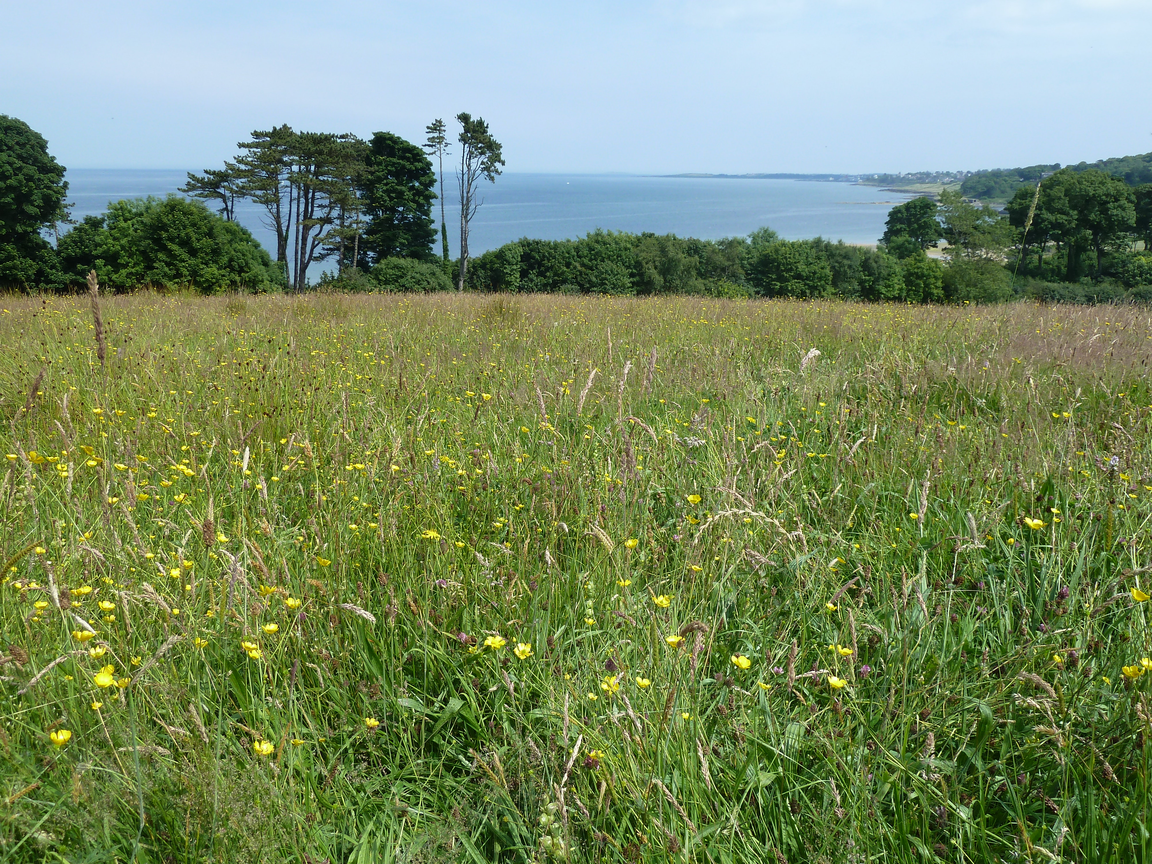 Crawfordsburn, Co.Down, Ireland. July. Meadow habitat.